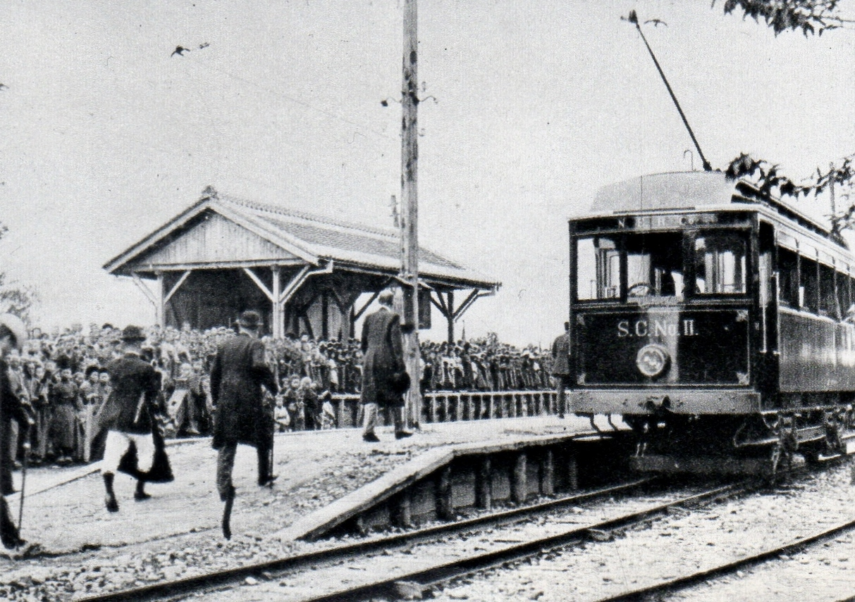 浅野駅のS.C.No.II